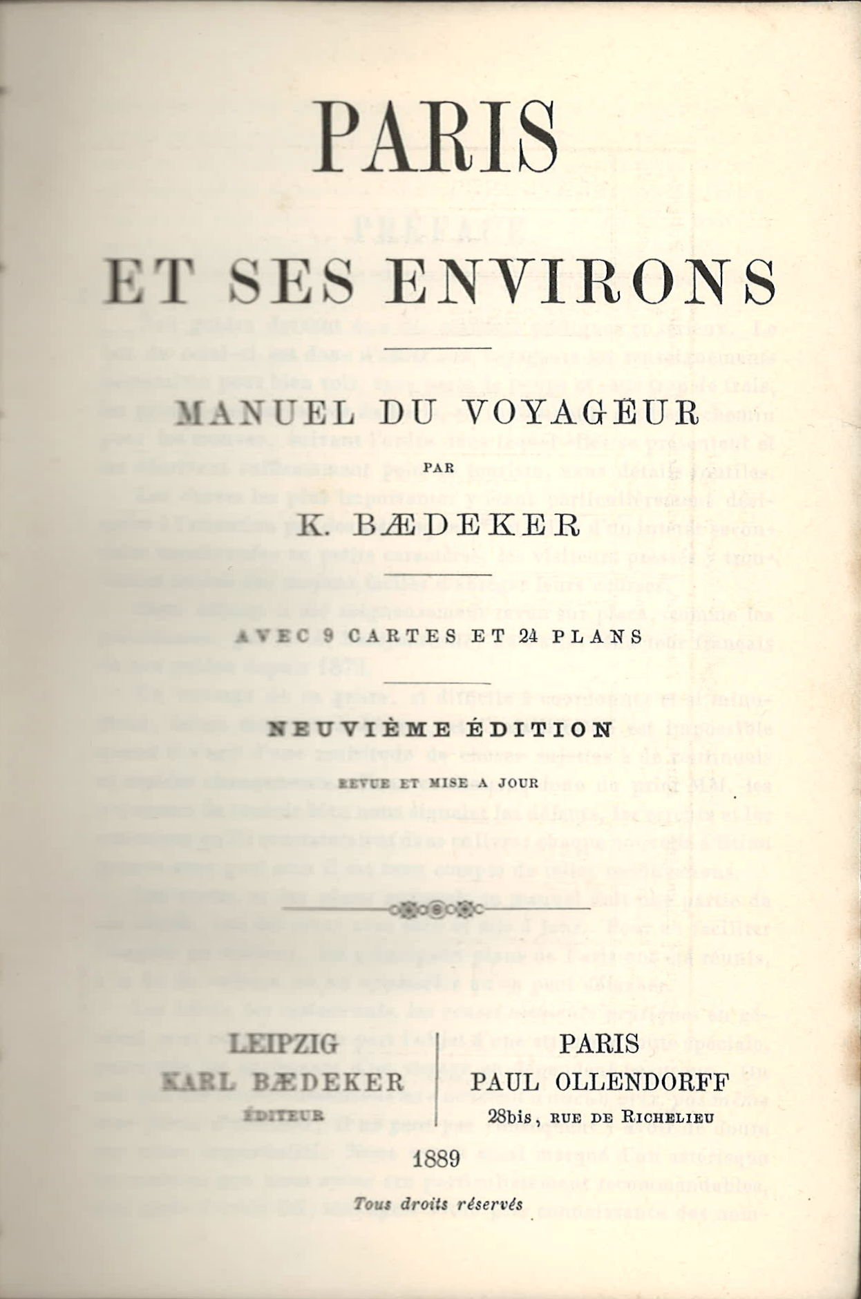 Title page of Baedekers Paris 1889 (French edition) with "Paul Ollendorff, Rue de Richelieu"